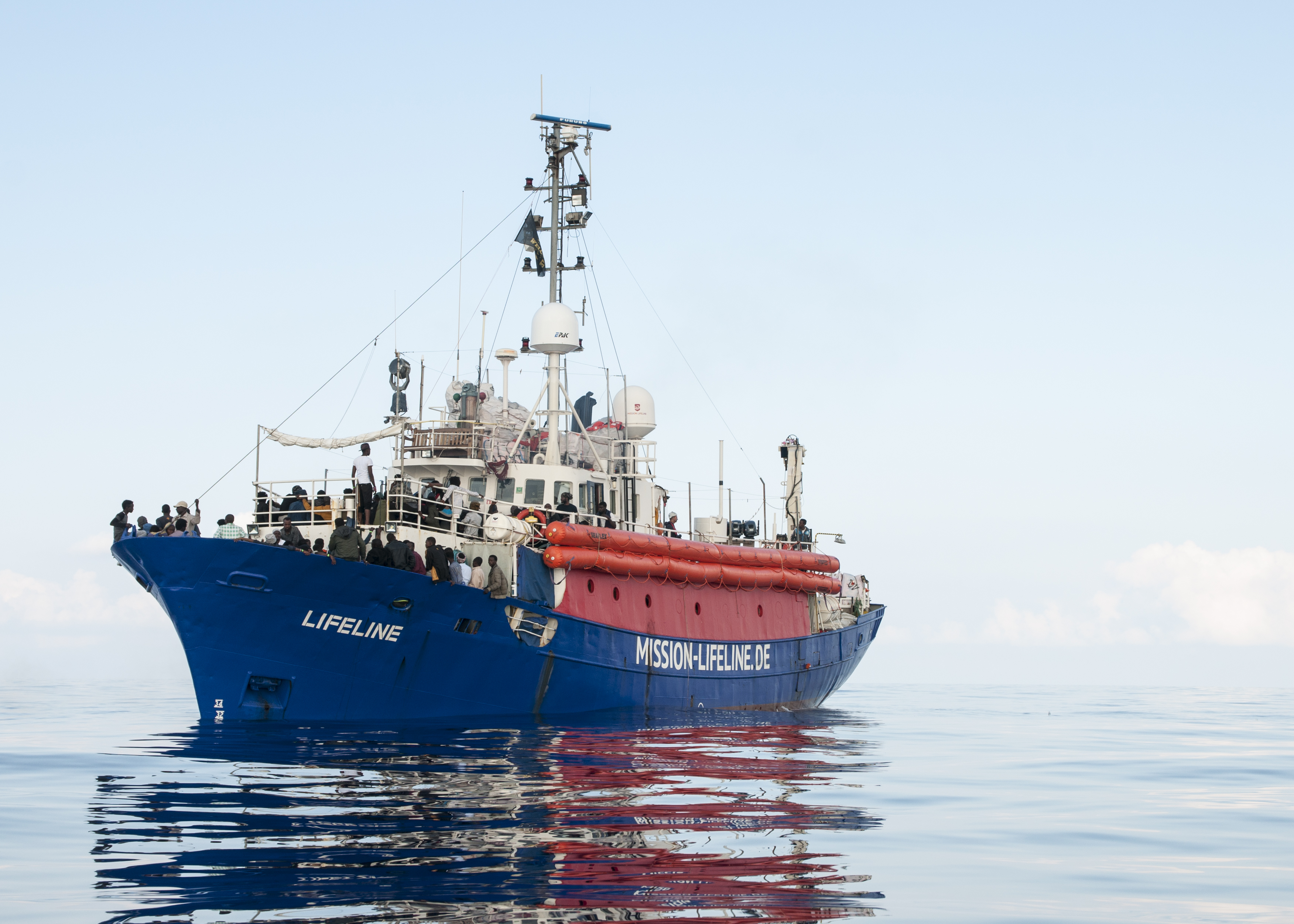 Photo of the ship Lifeline in 2018